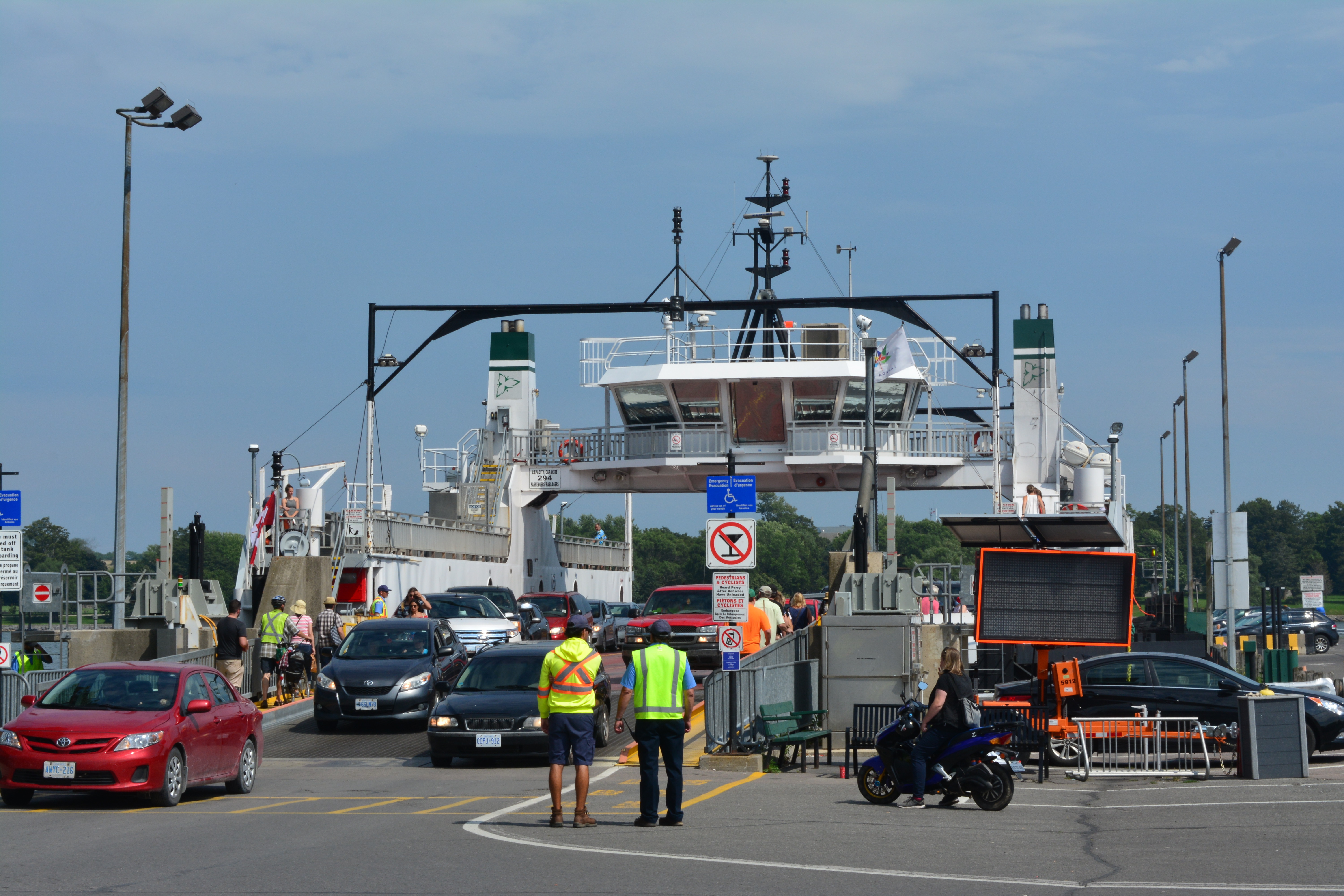 The Wolfe islander III, docked, with passengers leaving.